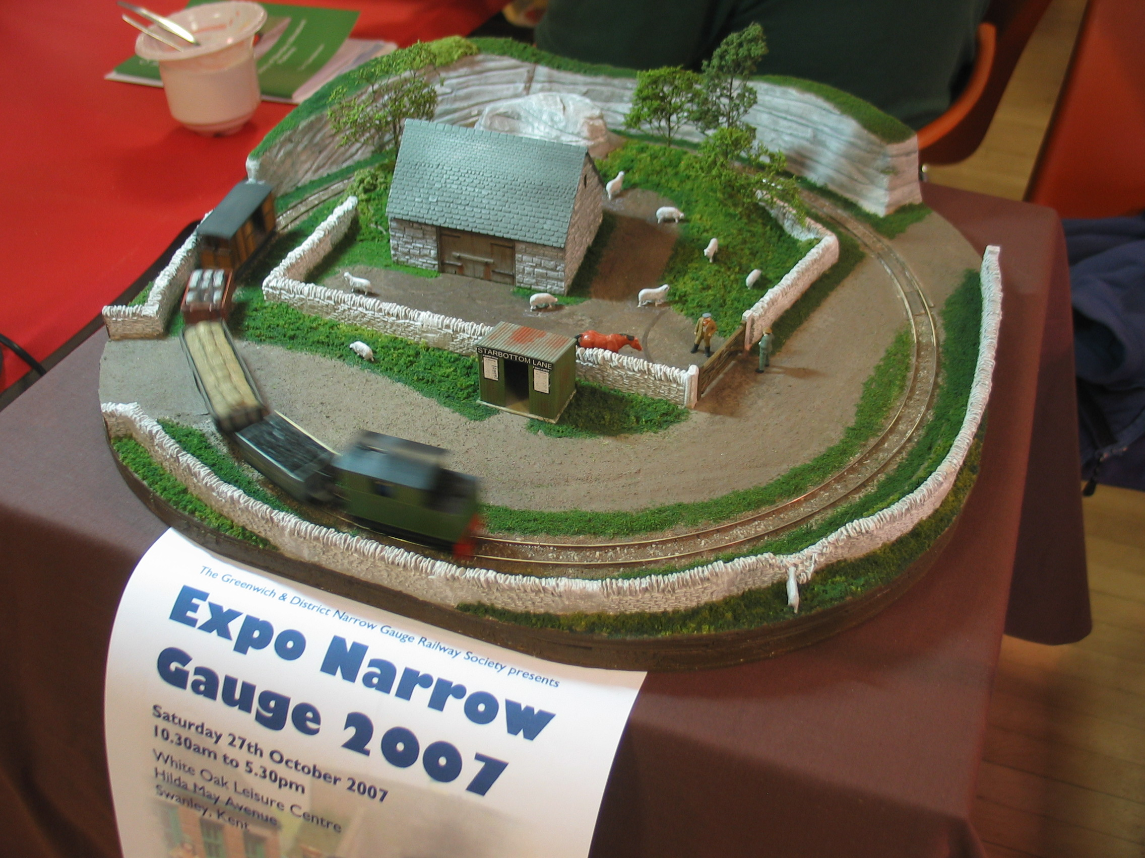 OO9 "pizza" layout Starbottom Lane at the Sussex Downs Group members day in Haywards Heath, March 2007